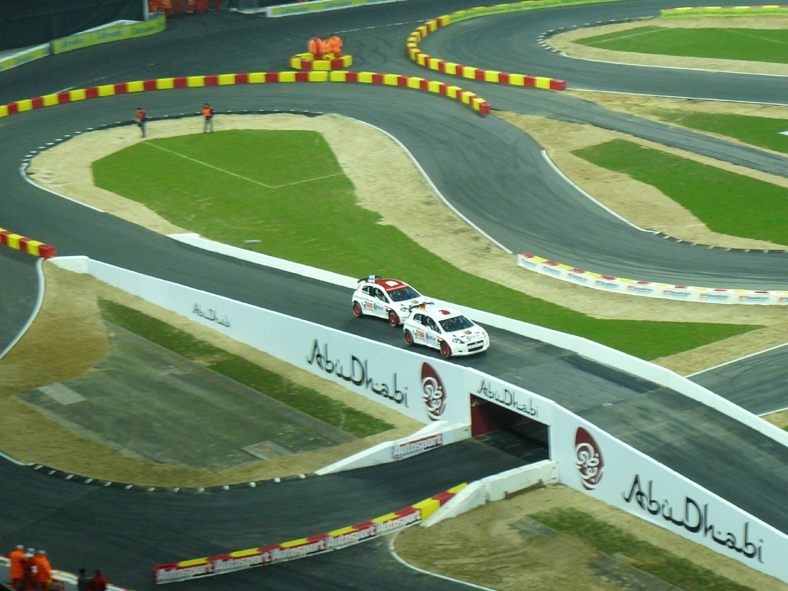 Heikki Kovalainen and Michael Schumacher driving Super 2000 class Fiat Grande Punto Abarth rally cars at the 2007 Race of Champions at Wembley Stadium. Schumacher stalled his car at the start and Kovalainen managed to catch and lap him.